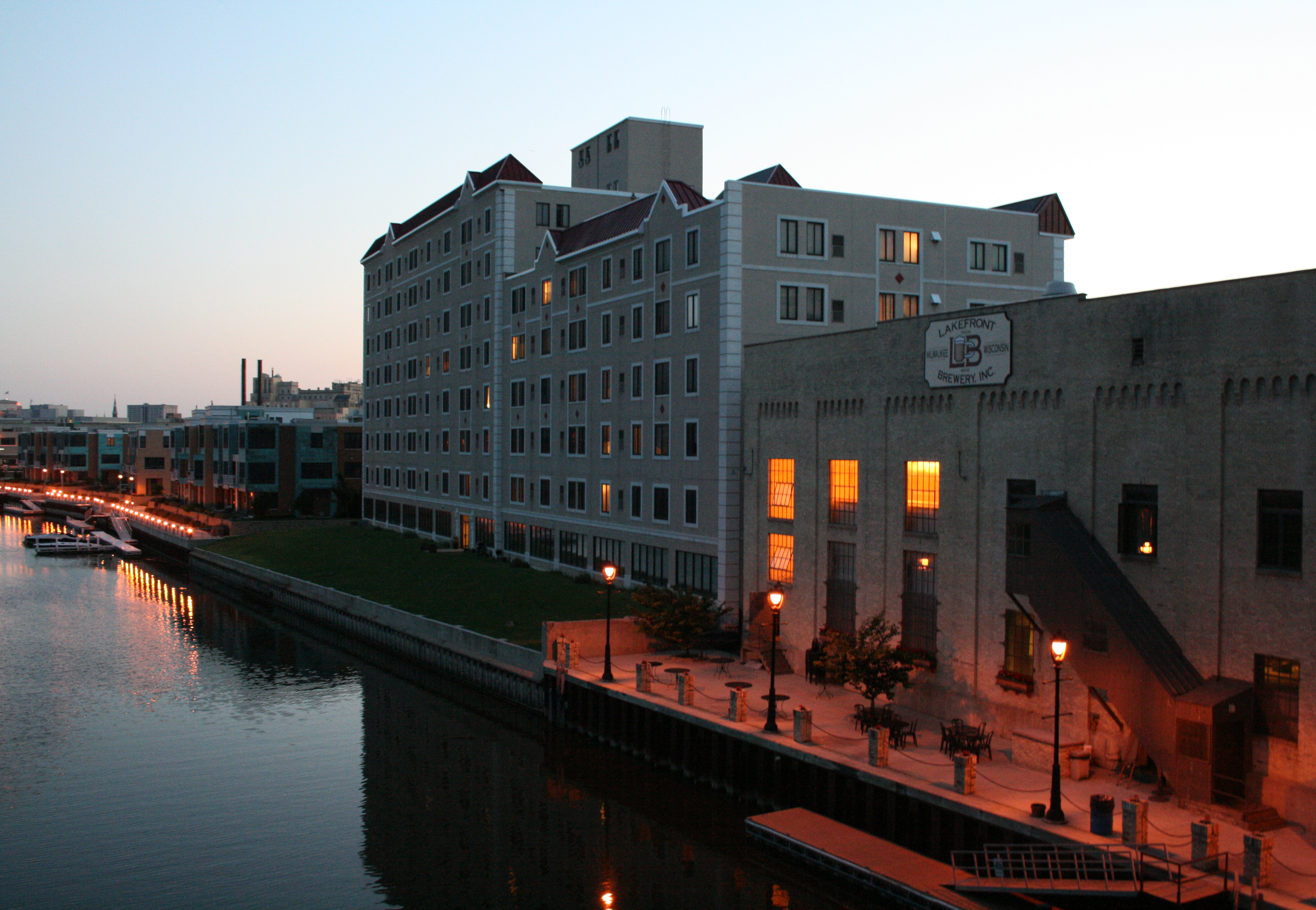 The back of Lakefront Brewery and Brewers' Point Apartments along the Milwaukee River in the Beerline B neighborhood of Milwaukee, Wisconsin.